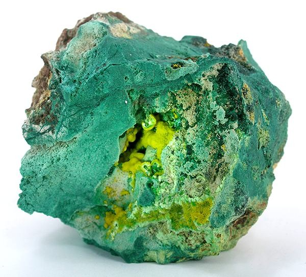 Uranophane - alpha, Malachite Locality: Shinkolobwe Mine (Kasolo Mine), Shinkolobwe, Central area, Katanga Copper Crescent, Katanga (Shaba), Democratic Republic of Congo (Zaïre) (Locality at ) Size: 5.7 x 5.0 x 4.4 cm. Microcrystalline uranophane [not analysed, kasolite was also suggested], in a protected vug of malachite and ore. Ex. Charlie Key Collection.